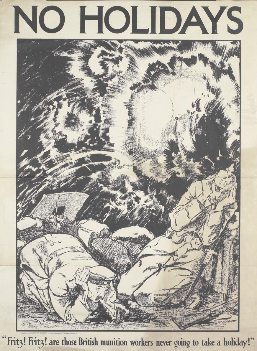 Poster : "No Holidays. Fritz ! Fritz ! are those British munition workers never going to take a holiday !"